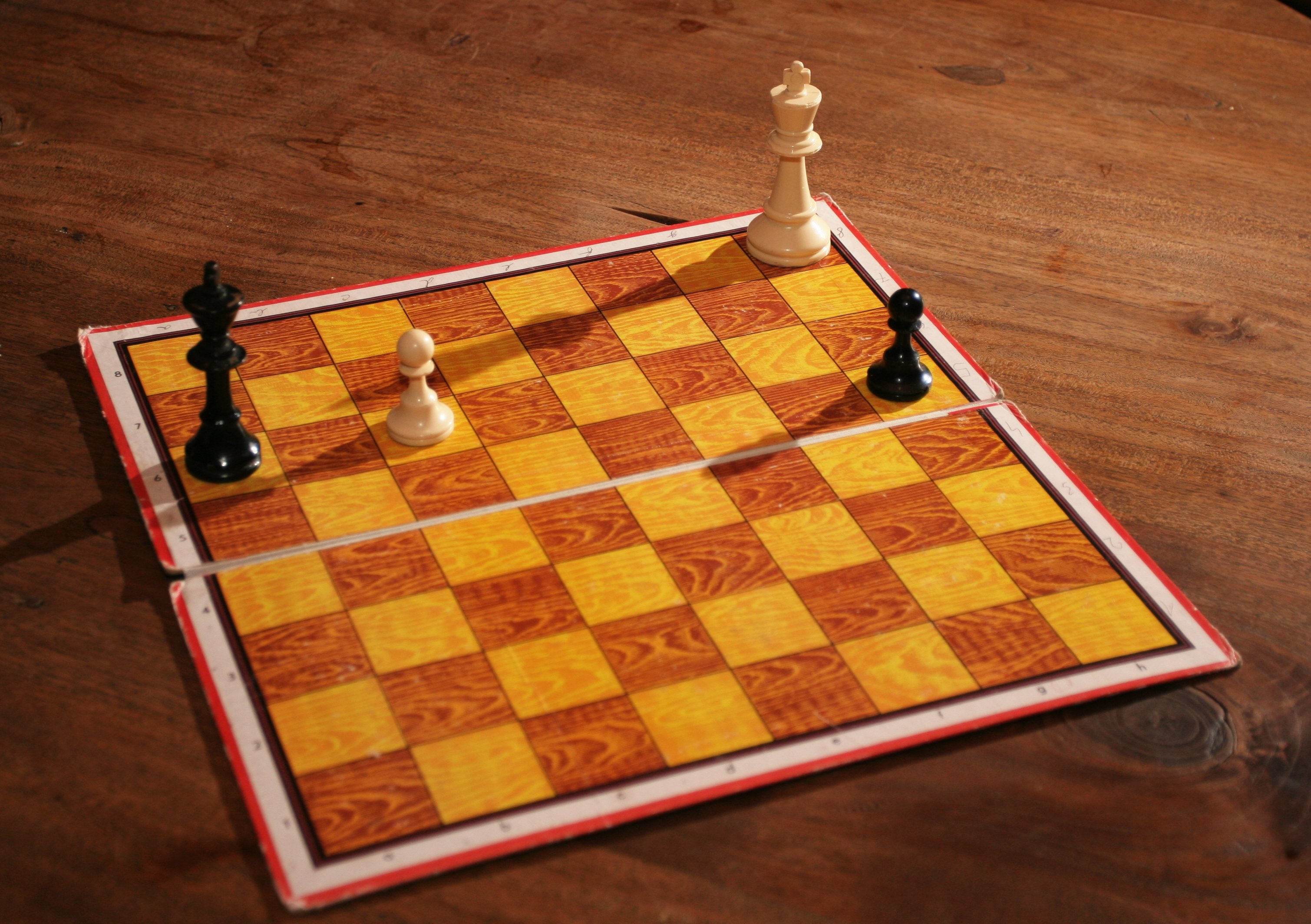 Chess board 0957